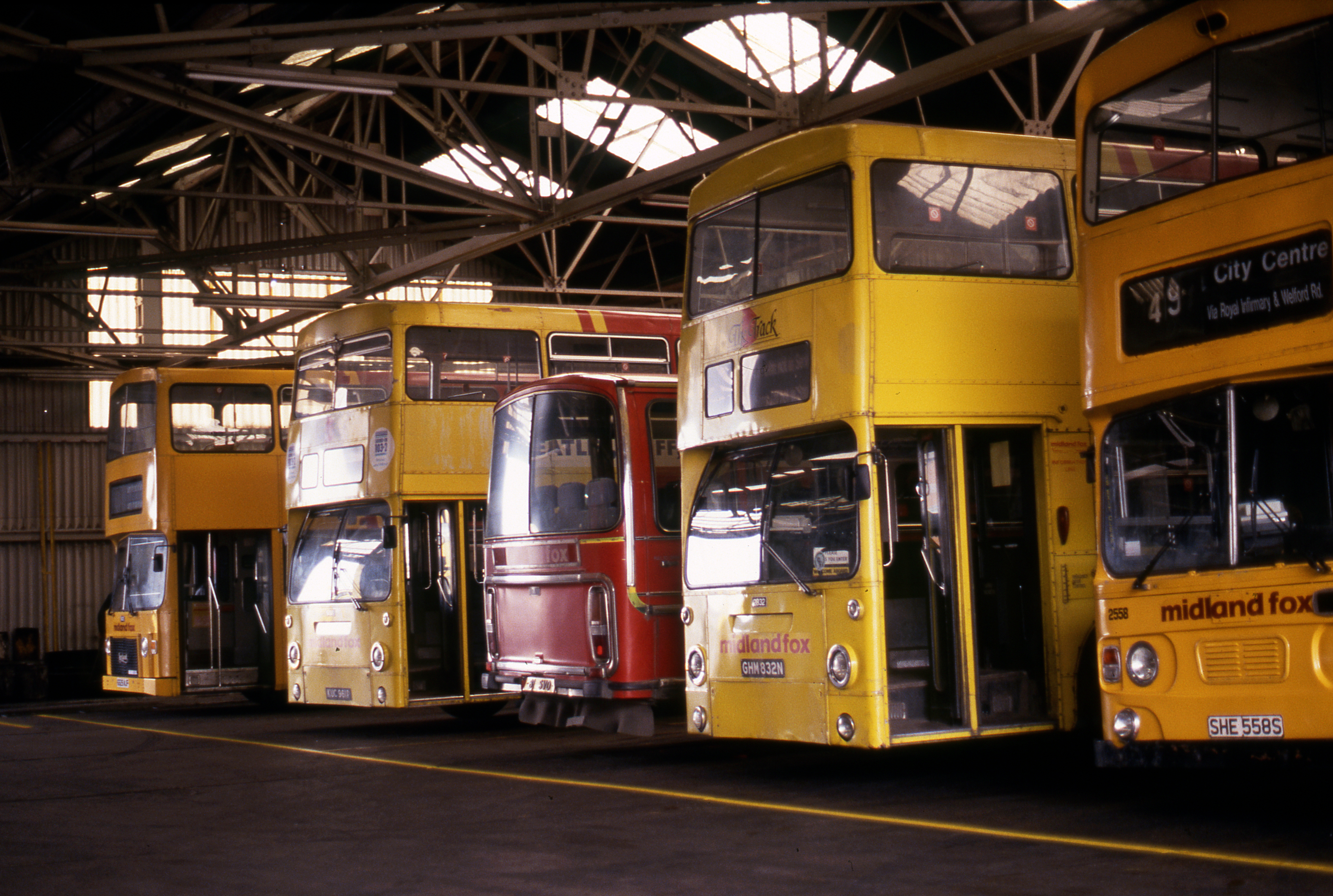 Line up of buses inside Midland Fox's South Wigston depot, summer 1991. Left to right: 4525 (G525 WJF), Leyland Olympian / Alexander 2901 (KUC 961P), Daimler Fleetline DMS 71 (81 SVO), Leyland Leopard / Plaxton Supreme 2832 (GHM 832N), Daimler Fleetline DM 2558 (SHE 558S), Daimler Fleetline / Alexander ex-SYPTE